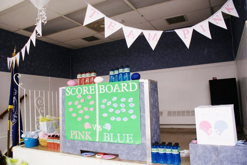 A room showing a scoreboard for "Team Pink" vs "Team Blue" as part of an American football-themed gender-reveal party